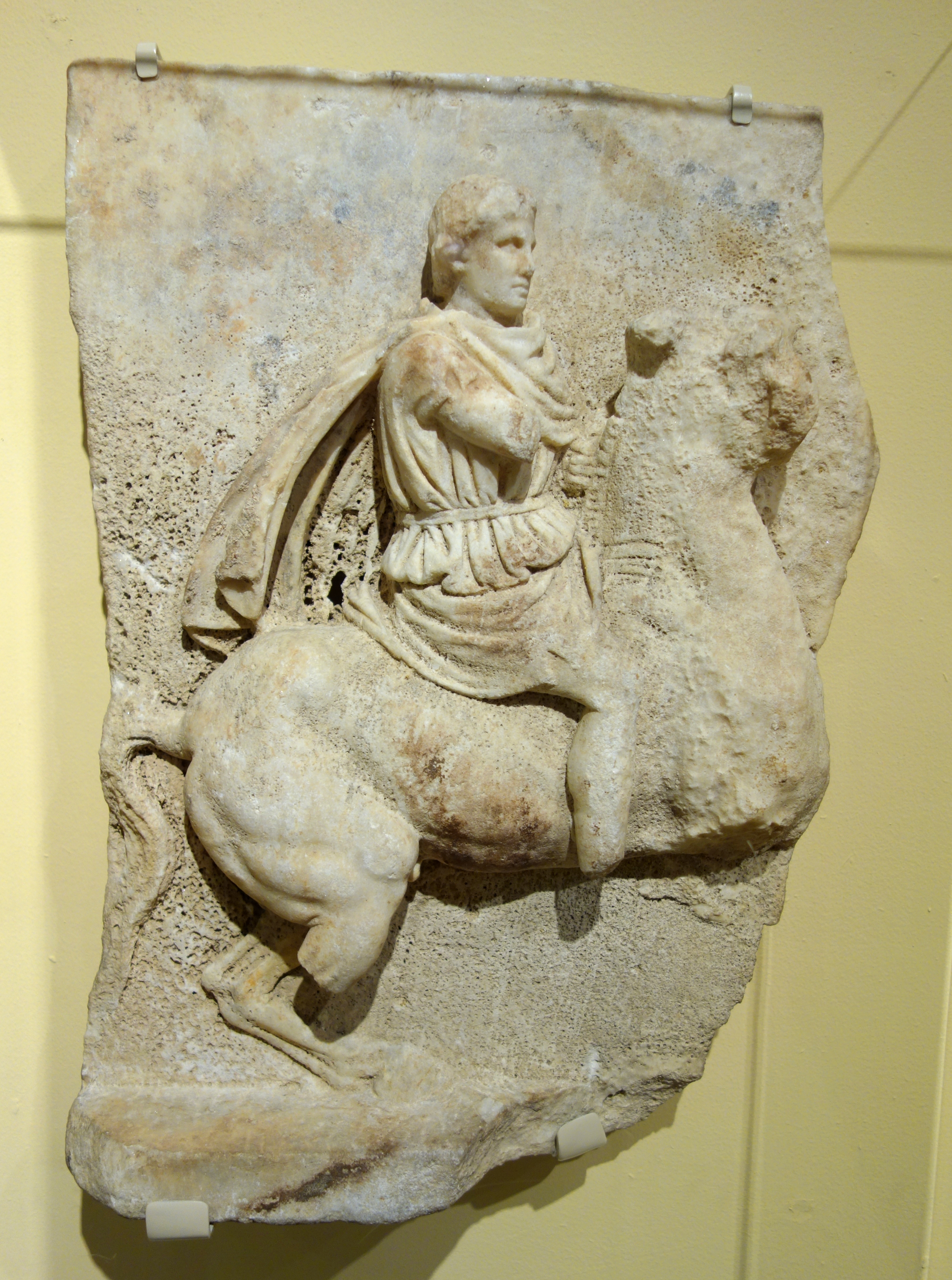 Exhibit in the Fitchburg Art Museum, Fitchburg, Massachusetts, USA. This artwork is old enough so that it is in the public domain.